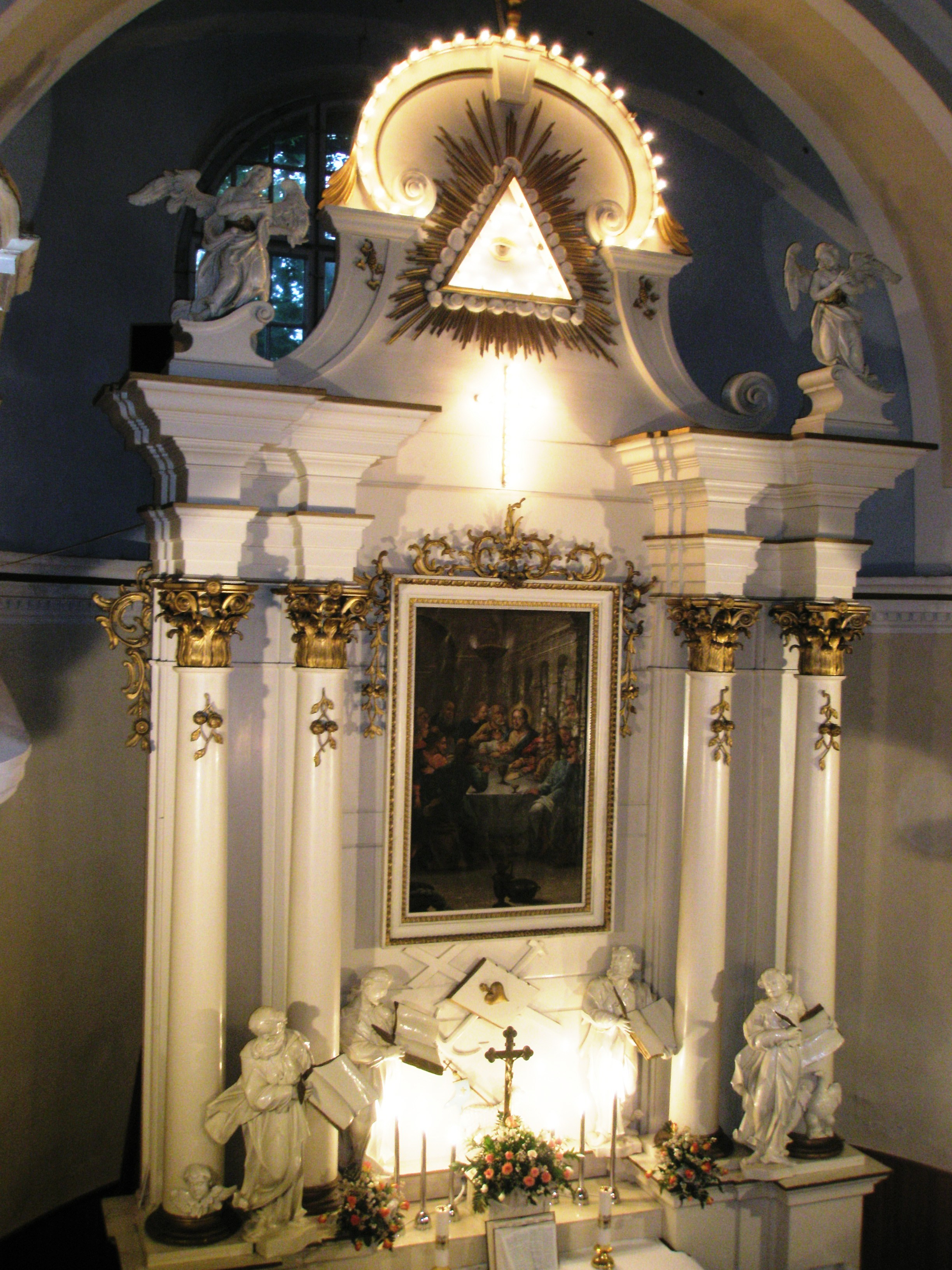 Altar of the Lutheran Church in Návsí, Frýdek-Místek District, Czech republic